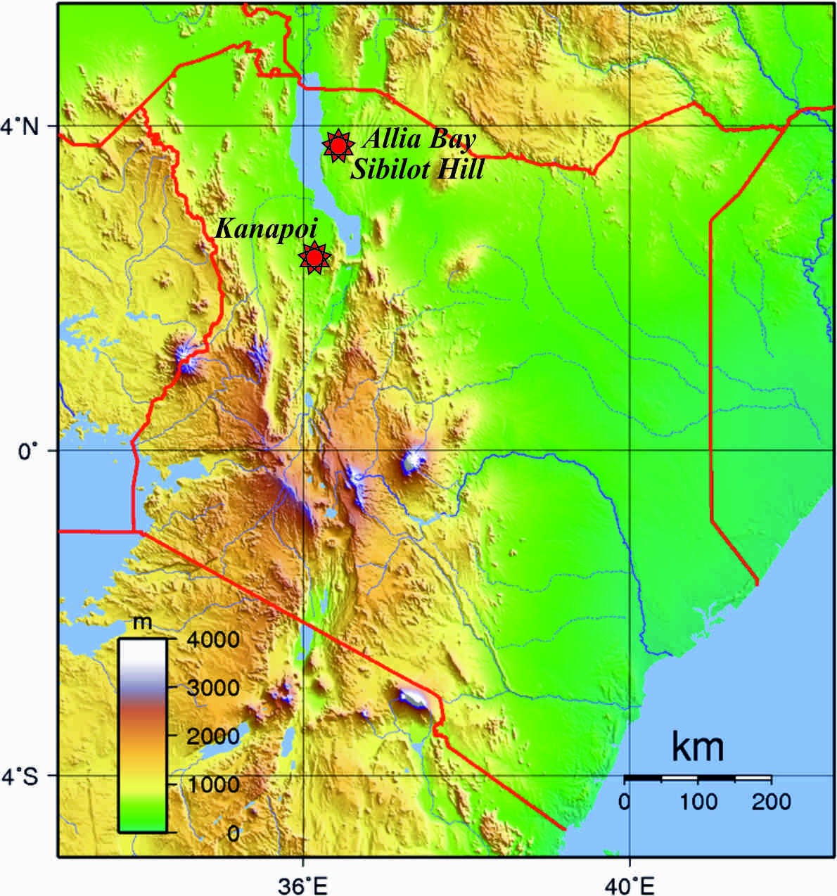 Australopithecus anamensis paleoanthropological sites in Kenya (Kanapoi, Allia Bay, Sibilot Hill)